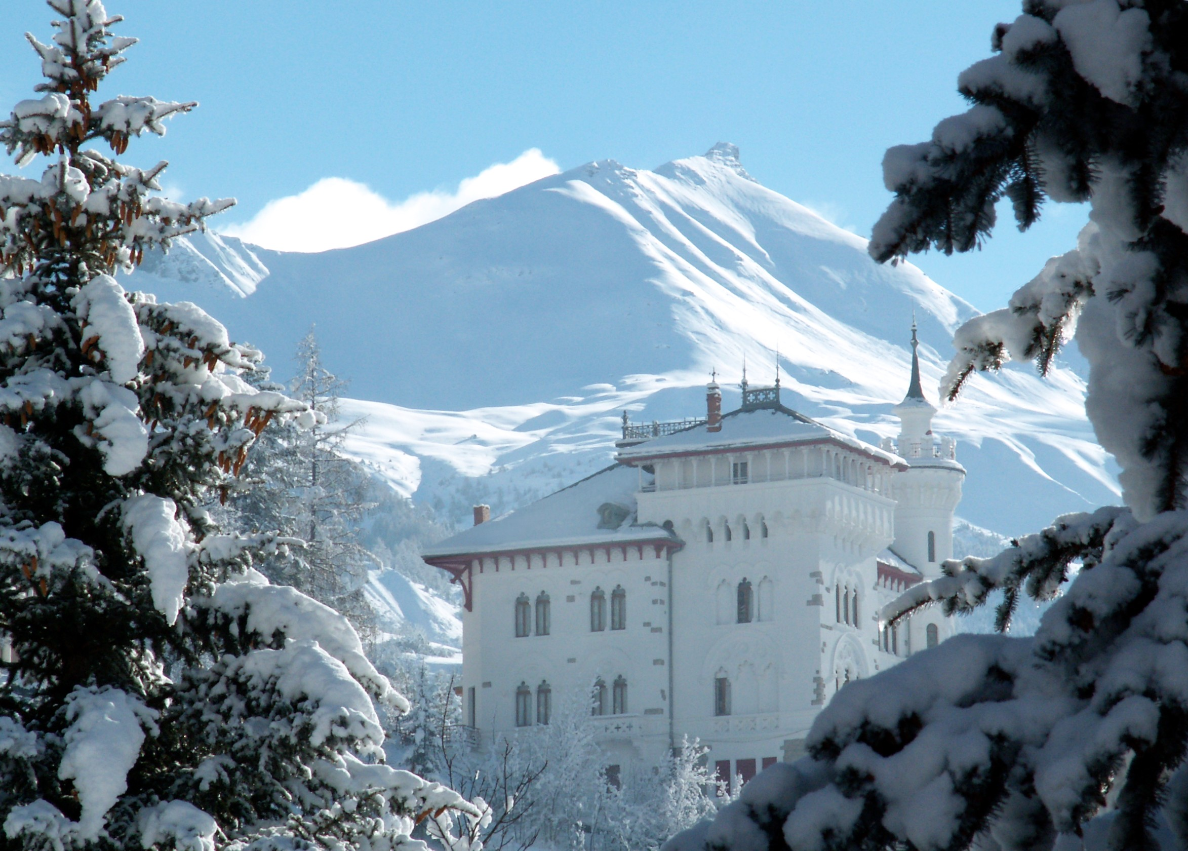 It is indexed in the Base Mérimée, a database of architectural heritage maintained by the French Ministry of Culture, under the references PA00080406 and IA04000119 .